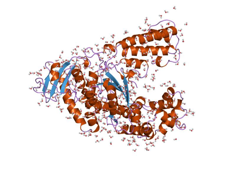 Cartoon representation of the molecular structure of protein registered with 1ktq code.